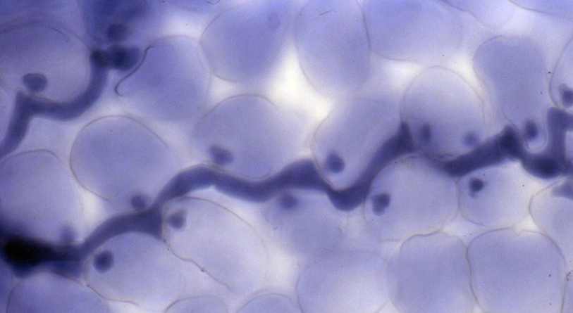 Hyphea of Hyaloperonospora parasitica (downy mildew) growing within the leaf of a compatible (susceptible) Arabidopsis thaliana (cf.wikipedia) observed by bright-field microscopy. The staining with trypan blue makes the cytoplasm of H. parasitica dark blue. The long structure is the hyphea, whereas the little sphere are haustoria. This is the vegetative step of the short life cycle of H. parasitica.